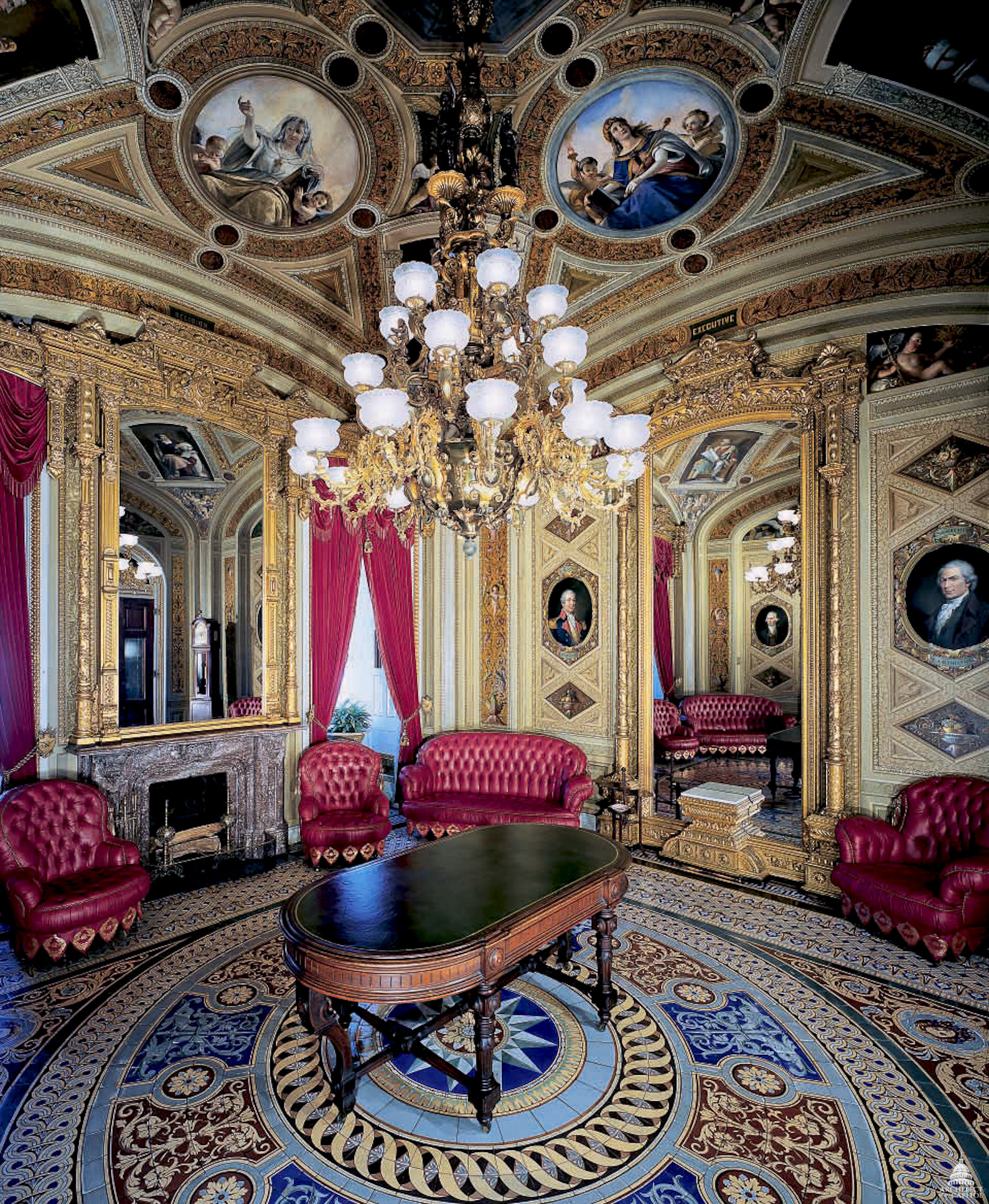 The President’s Room provides convenience for the chief executive when visiting the U.S. Capitol. In 1859 Constantino Brumidi began decorating the President’s Room with allegorical and historical figures on the ceiling while the walls were painted with portraits of George Washington and members of the first cabinet. Presidents used the room to sign legislation into law at the close of each session of Congress. This practice ended in 1933 with the passage of the 20th amendment, which established different ending dates for presidential and congressional terms of office. Although occasionally used by presidents, the room today is utilized primarily by senators for interviews and press conferences. This official Architect of the Capitol photograph is being made available for educational, scholarly, news or personal purposes (not advertising or any other commercial use). When any of these images is used the photographic credit line should read “Architect of the Capitol.” These images may not be used in any way that would imply endorsement by the Architect of the Capitol or the United States Congress of a product, service or point of view. For more information visit